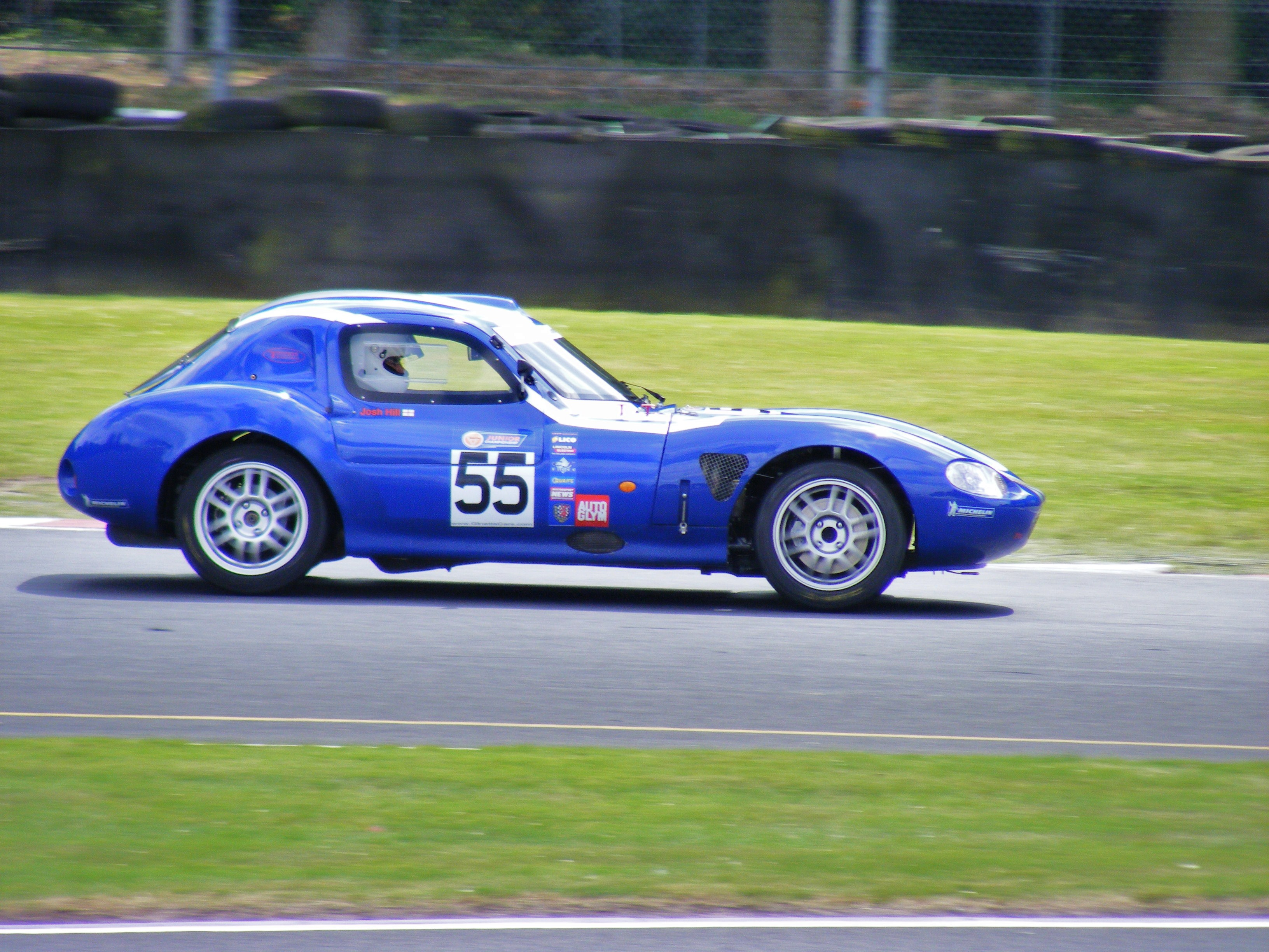 Josh Hill exits Old Hall Corner at Oulton Park during the qualifying session for the Ginetta Juniors.